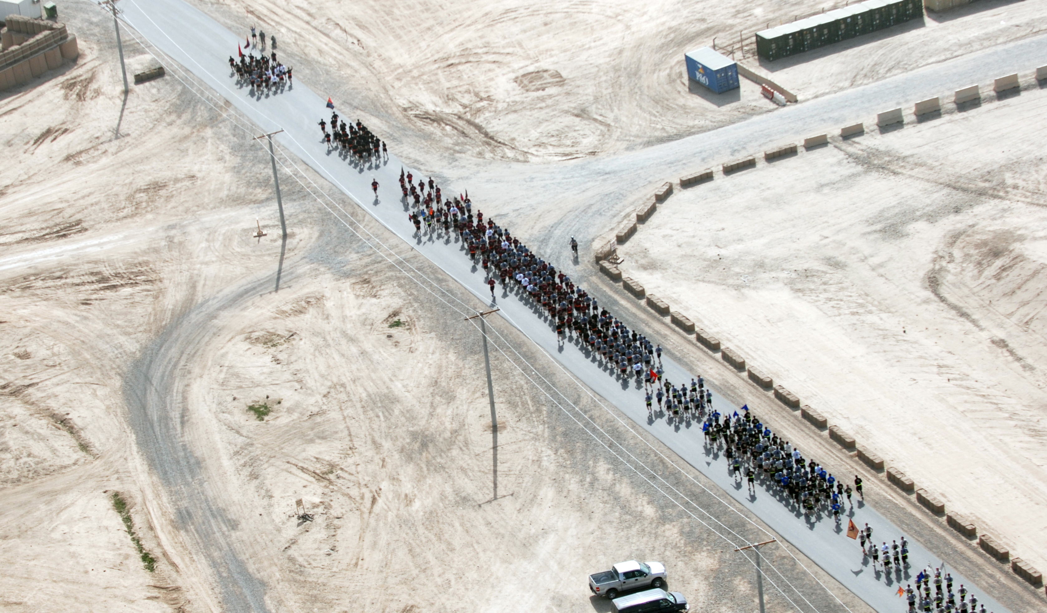 Over 700 Soldiers and military personnel from the 25th Infantry Division and supporting units participated in the 2nd annual "Operation Iraqi Freedom Great Aloha Run" on Contingency Operating Base Speicher, near Tikrit, Iraq, Feb. 8. The six-mile race originated in Hawaii 25 years ago with the 25th ID and serves as an event to bring a little bit of Hawaii to Soldiers in support of OIF and Task Force Lightning. See more at Army.mil